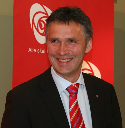 Jens Stoltenberg, leader of the Norwegian Labour Party and also the 36th/38th Prime Minister of Norway.